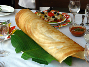 Dosa served in India